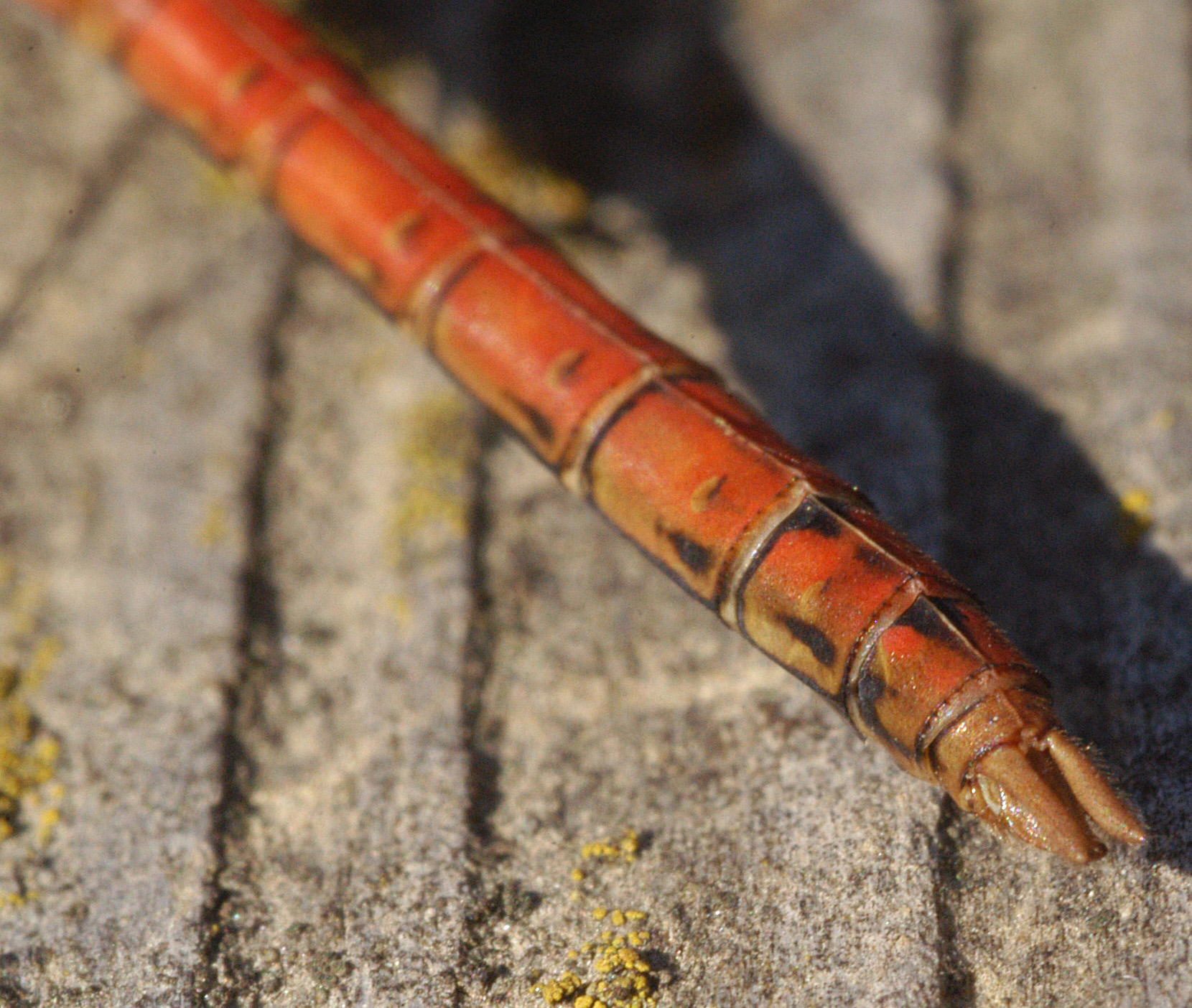 Common Darter